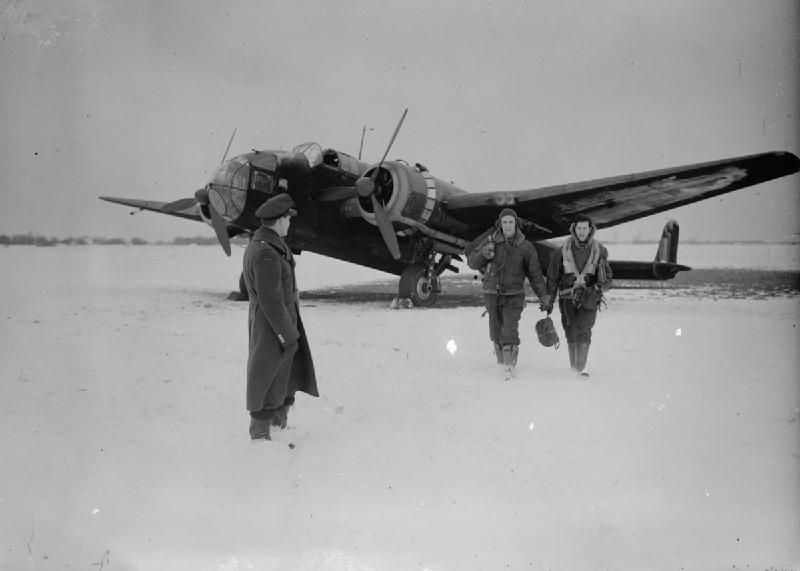 Royal Air Force 1939-1945- Bomber Command A wintry scene at Balderton in Nottinghamshire on 20 January 1942 as aircrew return from a flight in a Hampden of No 408 (Goose) Squadron, RCAF.